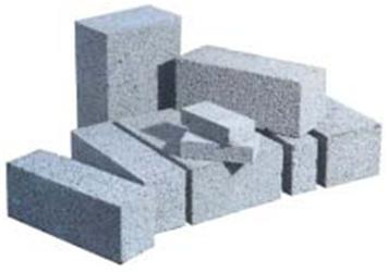 LECA - Building Blocks.